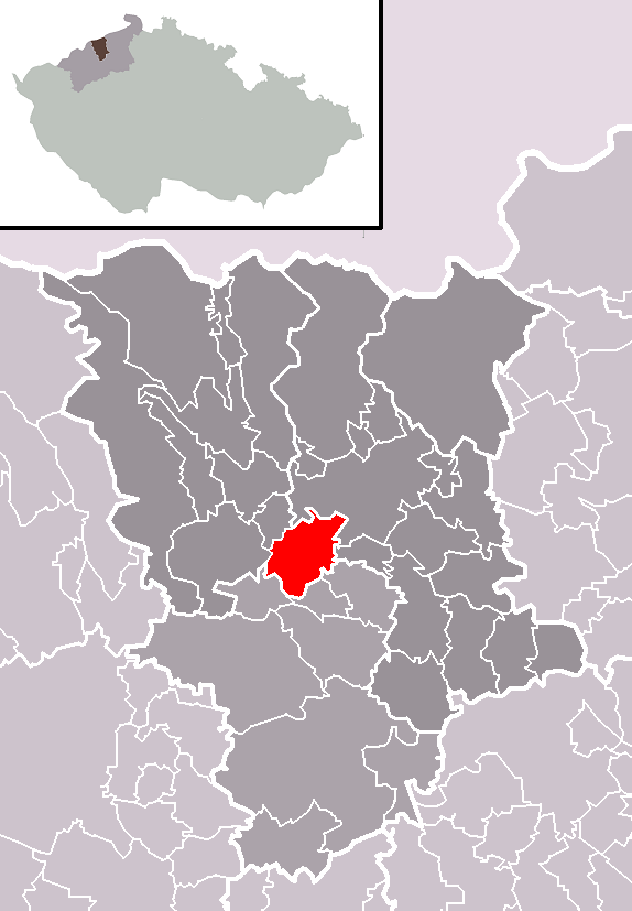 Location of Zabrušany municipality within Teplice District and administrative area of Teplice as a Municipality with Extended Competence.